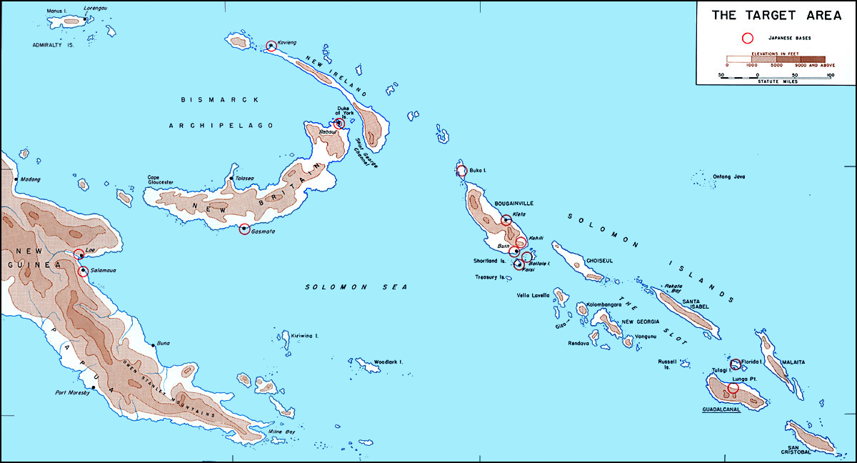 Map of Solomons area in 1942 before invasion of Guadalcanal showing Japanese bases circled in red. Image fixed by Angelus (talk).